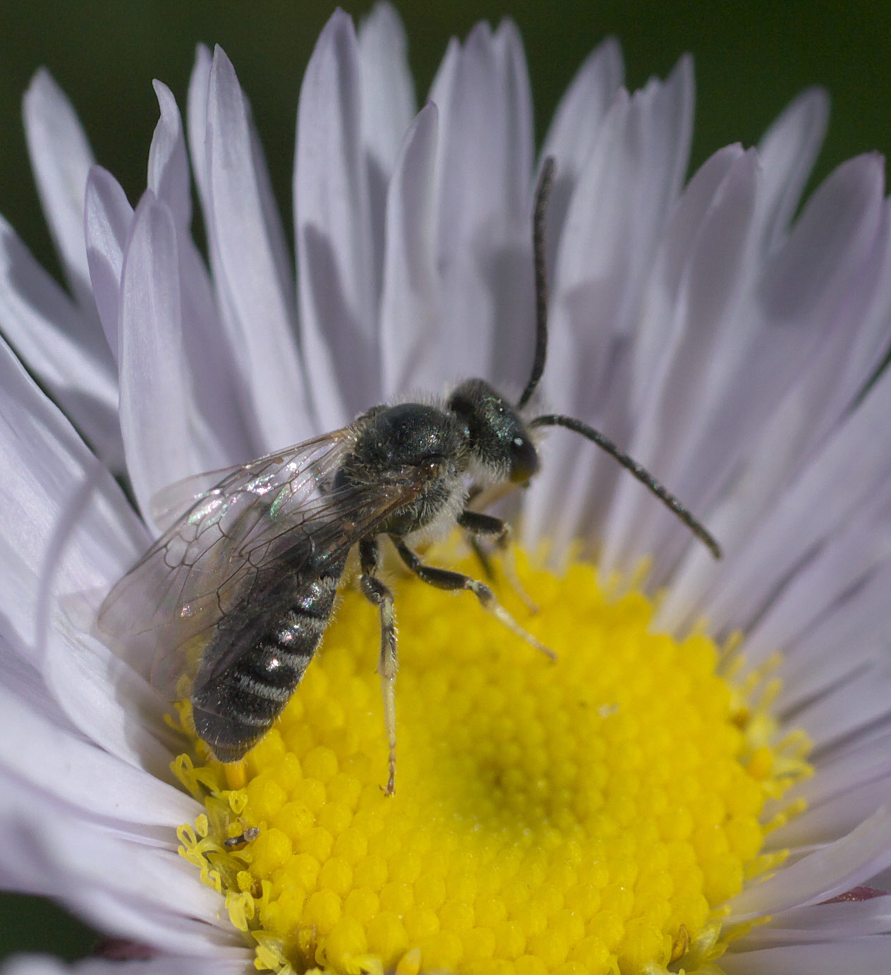 Halictus virgatellus, Genus: Furrow Bees, ID Confidence: 98